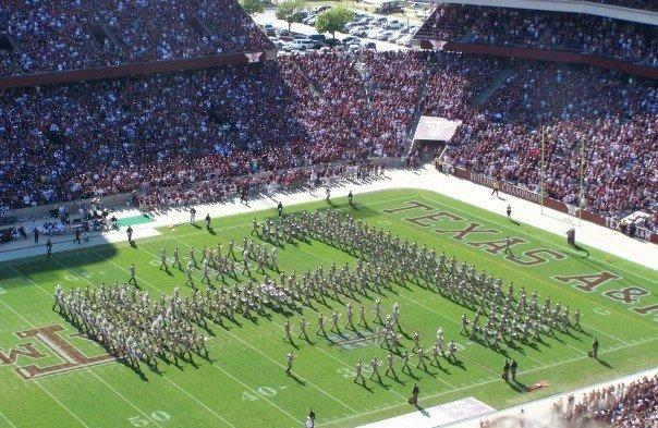 Fightin' Texas Aggie Band halftime performance at a home football game at Kyle Field. "ATM" formation shown.